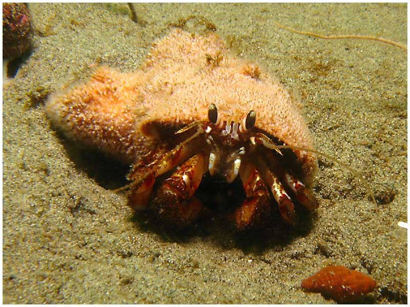 Blackeyed hermit crab (Pagurus armatus, armed hermit crab), taken in Victoria, BC, Canada